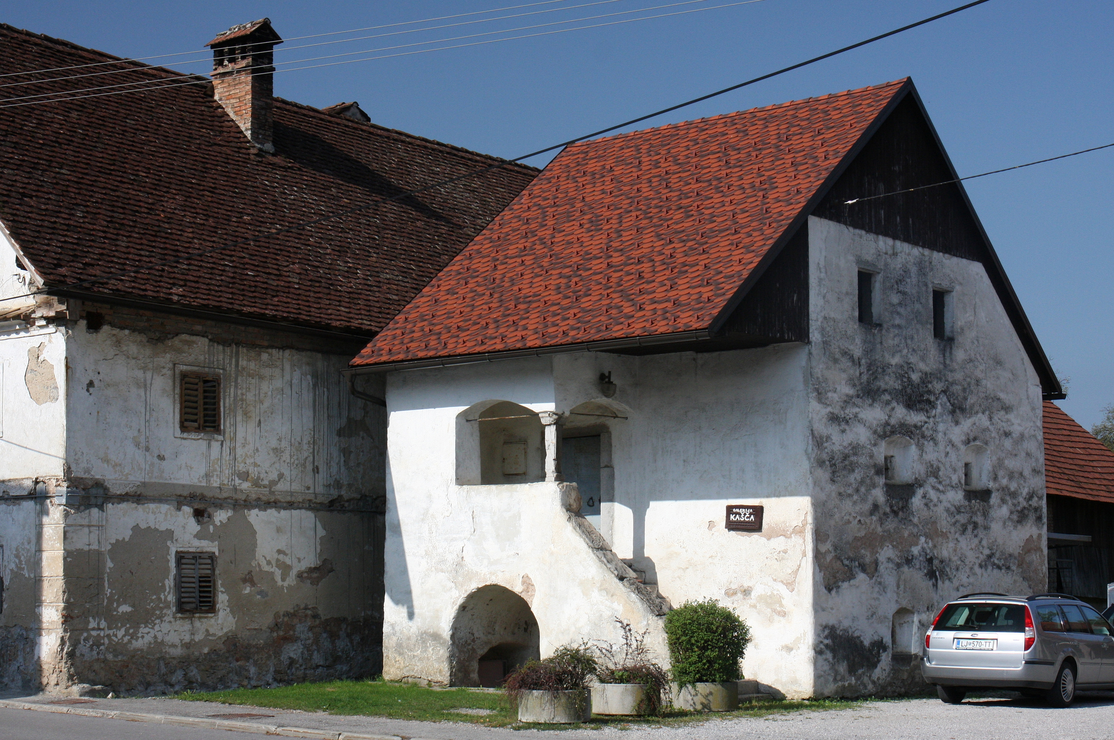 Miklč Granary, Verd, Slovenia